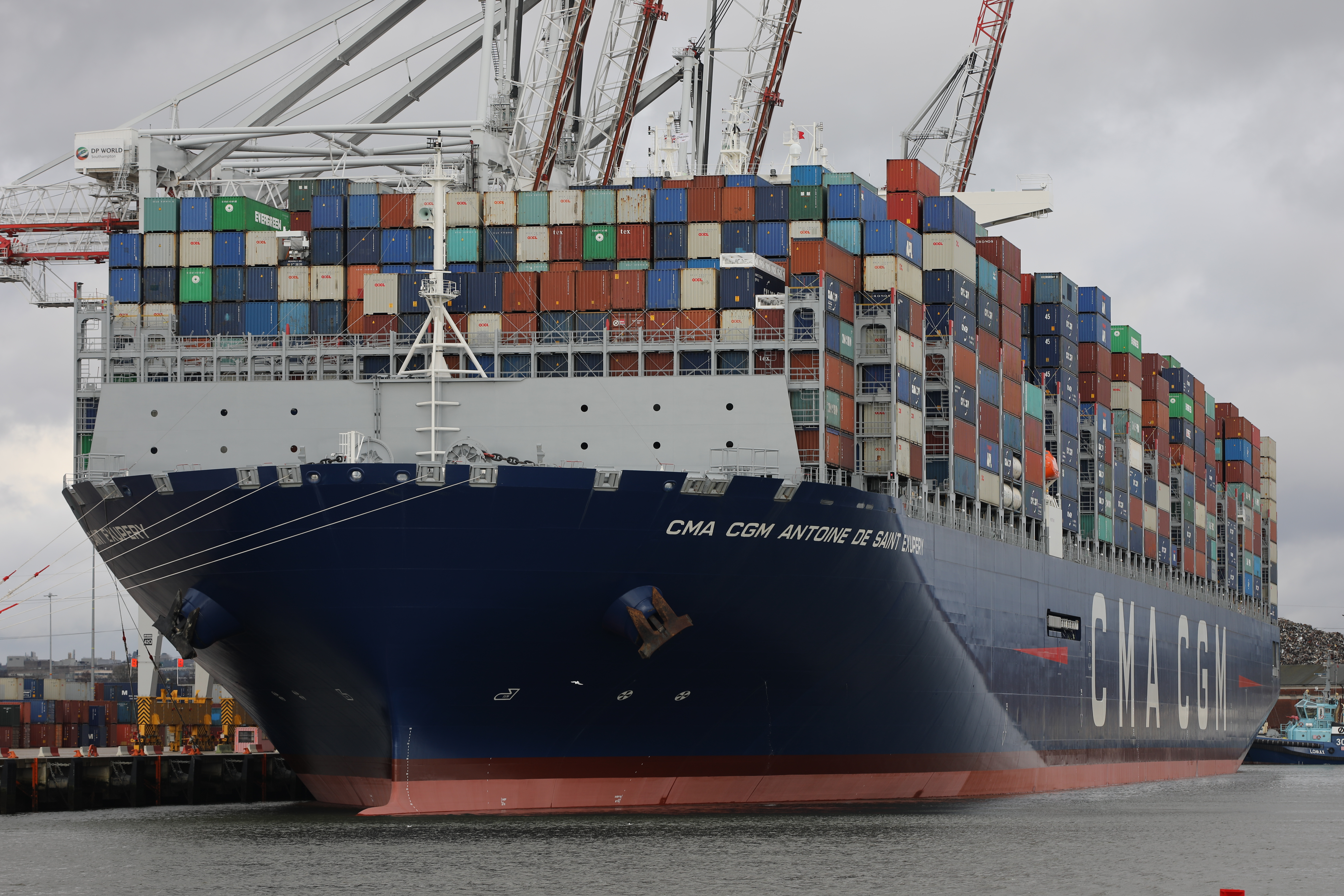 Photo of the CMA CGM Antoine de Saint Exupery at Southampton container port